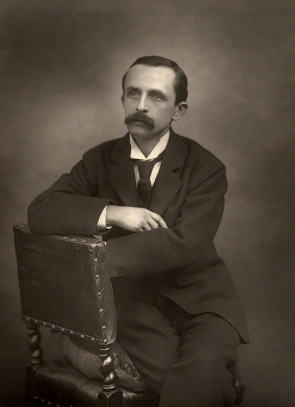 Sepia carbon print of James Matthew Barrie (1860-1937), author of "Peter Pan". Size 9 3/4 in. x 7 1/4 in. (249 mm x 183 mm).